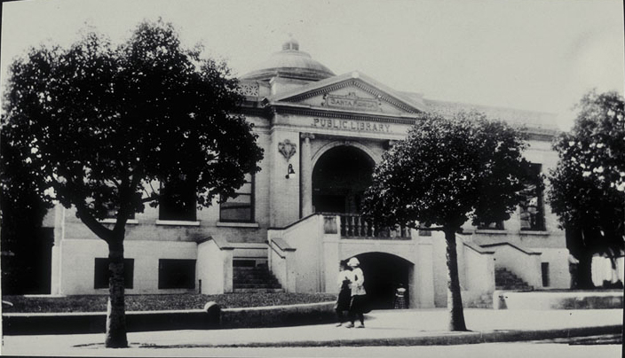 In 1904 the first structure built to house the Santa Monica Public Library opened at 503 Santa Monica Boulevard in Santa Monica, California. Carnegie Funds were used to finance the construction. The building was significantly expanded and altered in 1927, after this photograph was taken. It was razed in 1974.